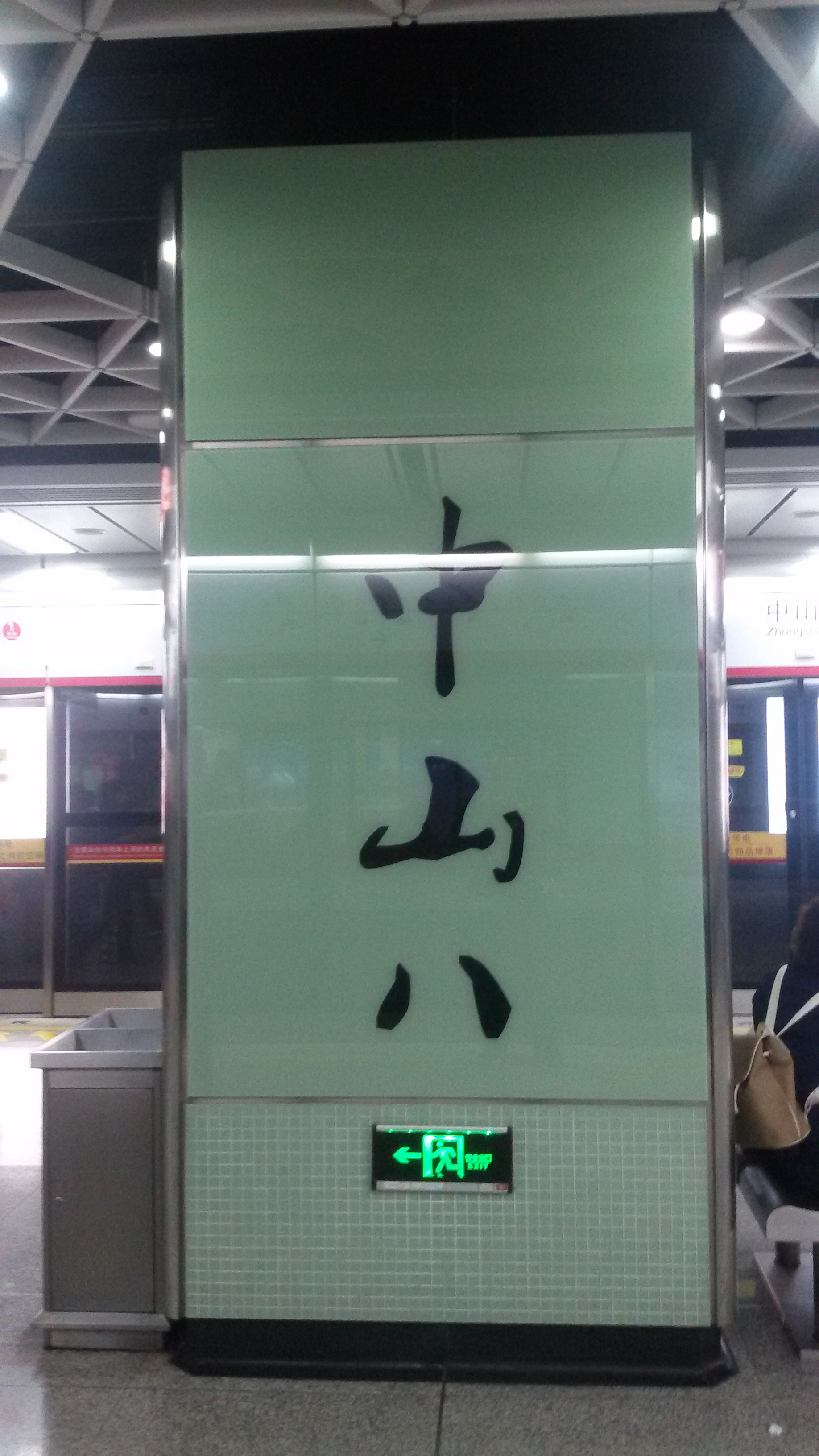 WORD on PILLAR for Line 5 in Zhongshanba Station, Guangzhou Metro